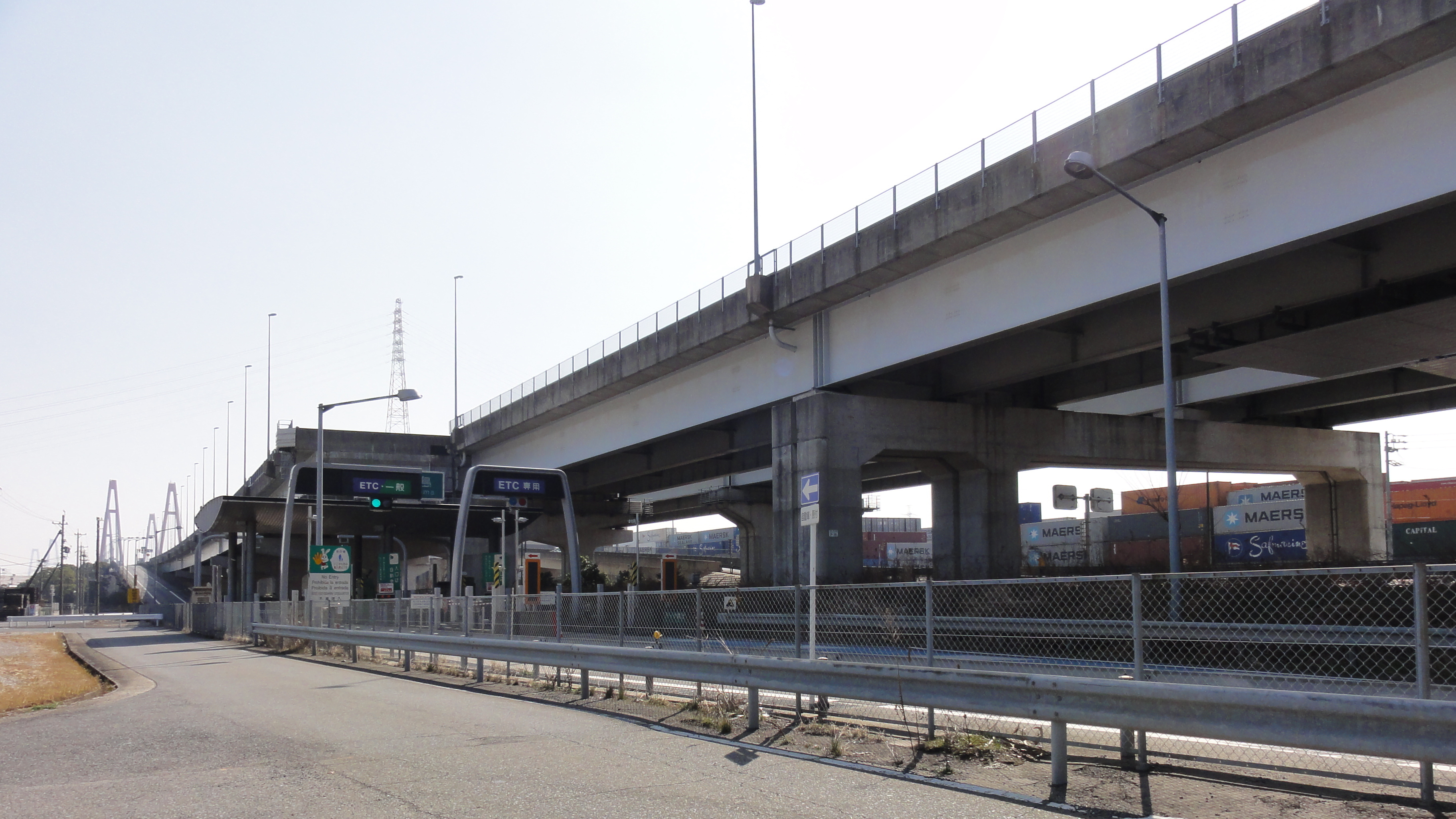 Tobishima Inter Change ,Aichi prefecture, Japan